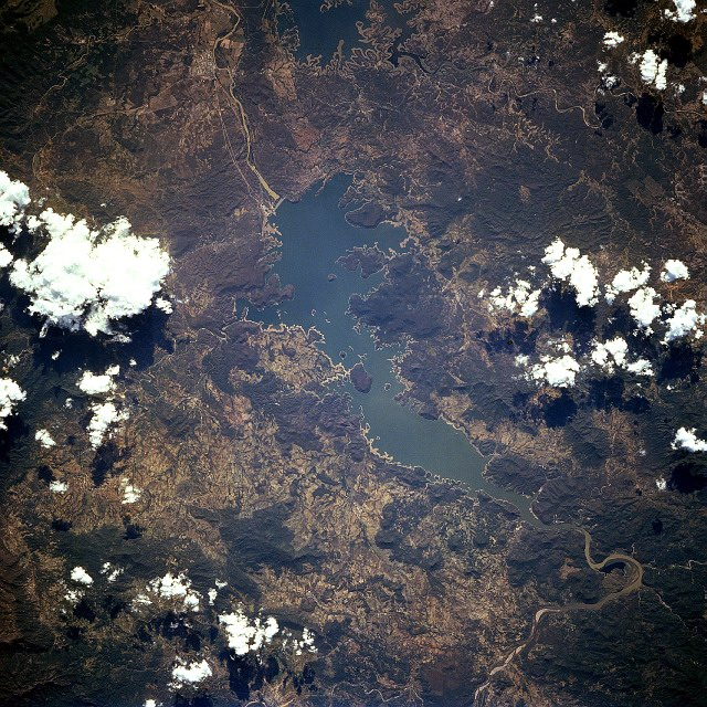 Lake Ouiachic (Alvaro Obregon Reservoir), Mexico